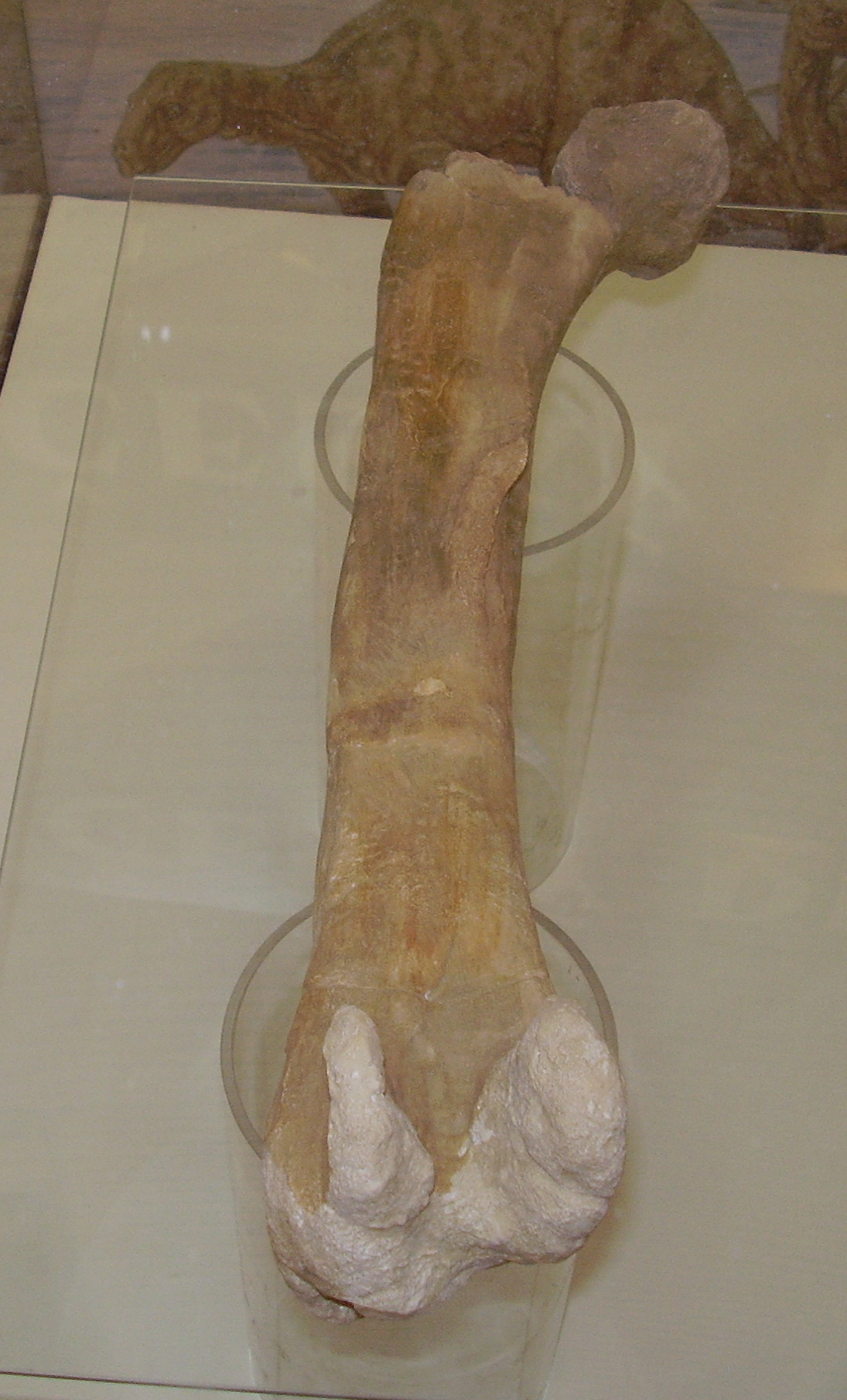 Left femur of the first czech dinosaur - Burianosaurus augustai. It was found in 2003 near Mezholezy by Kutná hora. Photo taken on "Argentinian dinosaur exhibition" in Prague (March, 2007). Image taken in Prague, Czech Republic